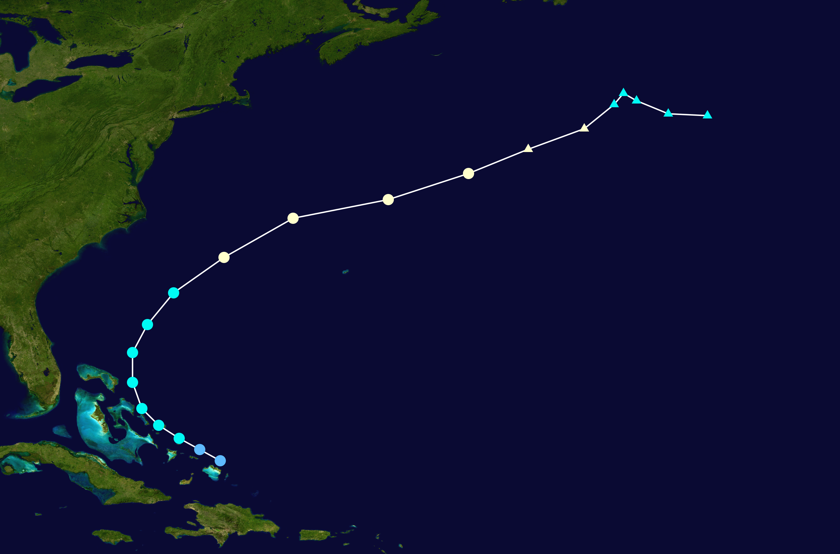 Track map of Hurricane Kate of the 2015 Atlantic hurricane season. The points show the location of the storm at 6-hour intervals. The colour represents the storm's maximum sustained wind speeds as classified in the Saffir–Simpson scale (see below), and the shape of the data points represent the nature of the storm, according to the legend below. Saffir–Simpson scale Tropical depression≤38 mph≤62 km/h Category 3111–129 mph178–208 km/h Tropical storm39–73 mph63–118 km/h Category 4130–156 mph209–251 km/h Category 174–95 mph119–153 km/h Category 5≥157 mph≥252 km/h Category 296–110 mph154–177 km/h Unknown Storm type Tropical cyclone Subtropical cyclone Extratropical cyclone / Remnant low / Tropical disturbance / Monsoon depression